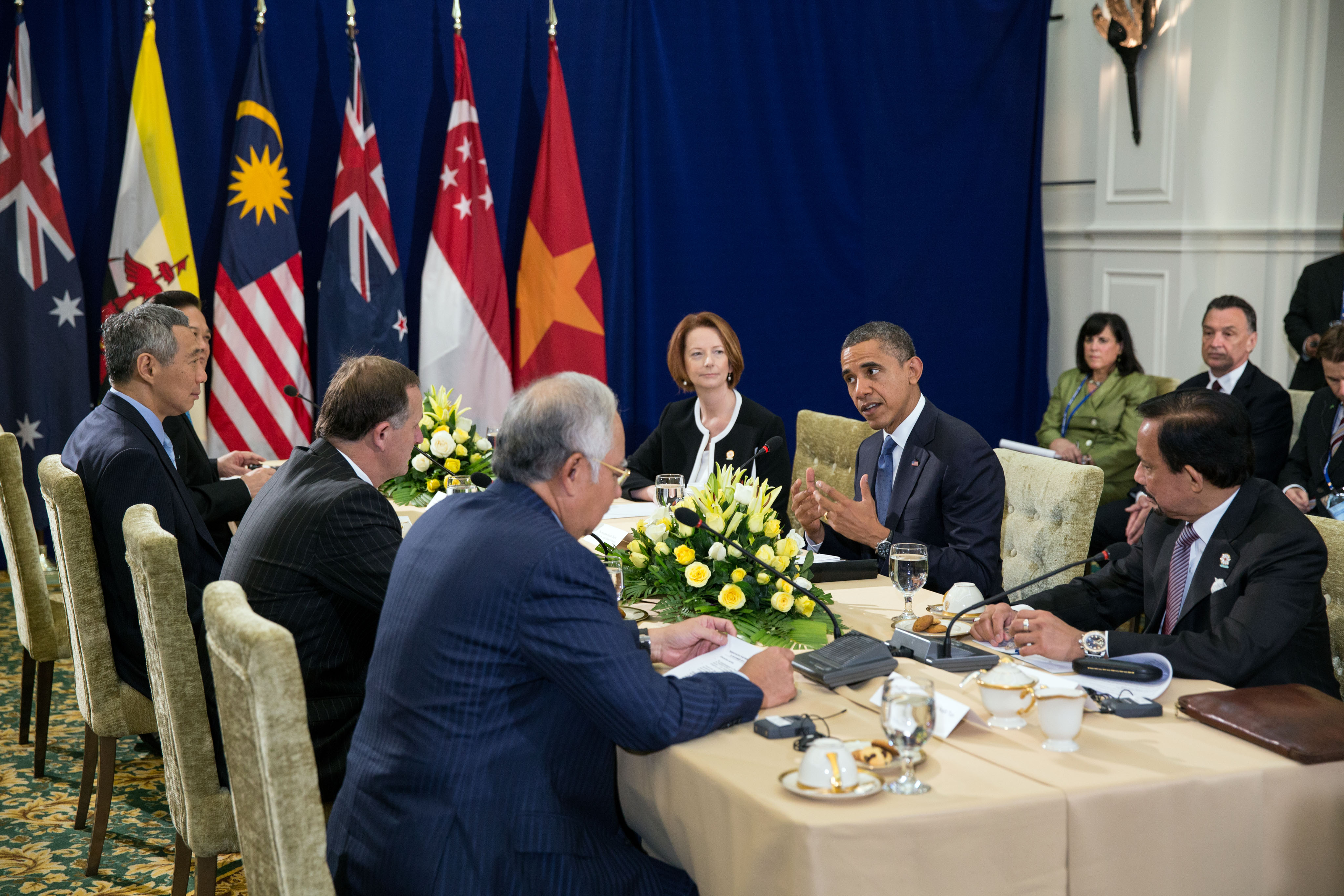 United States President Barack Obama attends the Trans-Pacific Partnership (TPP) meeting at the ASEAN Summit at Peace Palace in Phnom Penh on 20 November 2012. Taking part in the meeting, clockwise from the President, are the Sultan of Brunei Hassanal Bolkiah; Prime Minister Mohammed Najib Abdul Razak of Malaysia; Prime Minister John Key of New Zealand; Prime Minister Lee Hsien Loong of Singapore; Prime Minister Nguyen Tan Dung of Vietnam; and Prime Minister Julia Gillard of Australia.